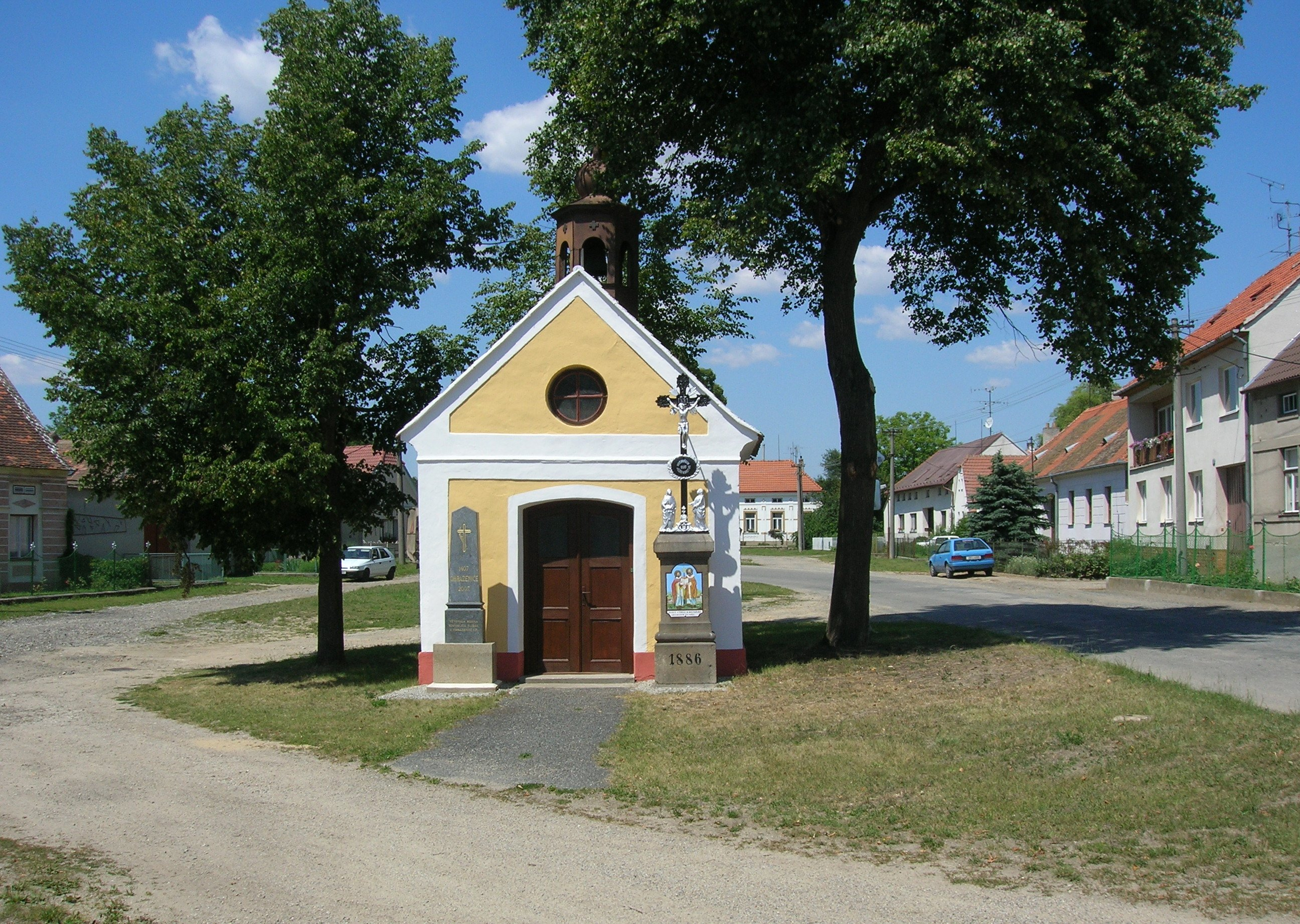 Jaroměřice nad Rokytnou-Ohrazenice. Village square with a chapel